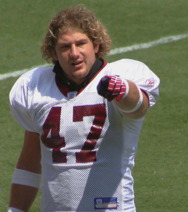 Chris Cooley, professional football player, at training camp for the Washington Redskins.